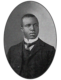 Portrait of Scott Joplin. First published in St. Louis Globe-Democrat newspaper, June 7, 1903.